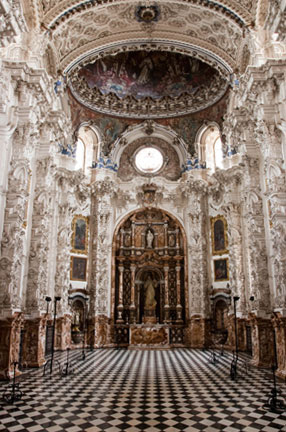 Sacristy, ca. 1730-1750. Charterhouse, Granada.